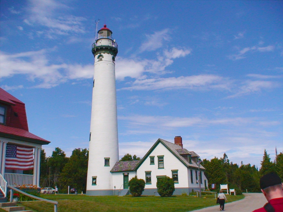 The New Presque Isle Light was built in 1870, at Presque Isle, Michigan, east of Grand Lake (Presque Isle, Michigan), and sits on the namesake peninsula.